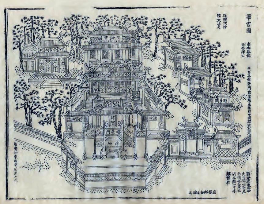 Ancient map of Raozhou Confucian Temple, Poyang County, Jiangxi, China